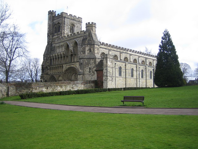 Dunstable: The Priory Church of St Peter. Building work on the Priory commenced around 1132, and took about eighty years to complete. Two storms in 1222 caused severe damage resulting in both towers at the western end collapsing, and the church was subsequently substantially rebuilt. The Church's website can be found here